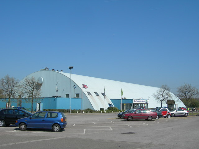 Lee Valley Ice Centre. An Ice Rink on Lea Bridge Road.